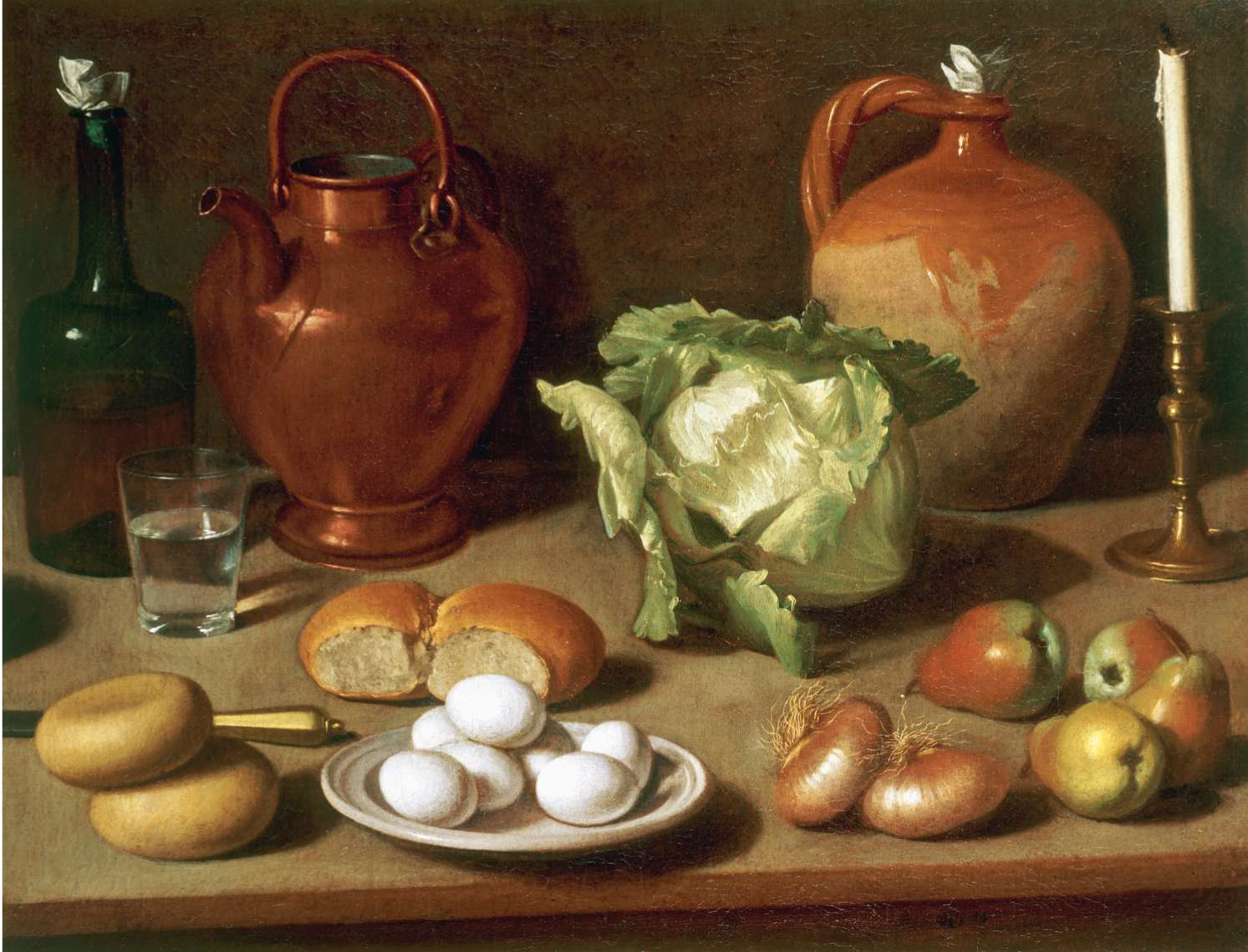 Still Life with Eggs, Cabbage and Candlestick